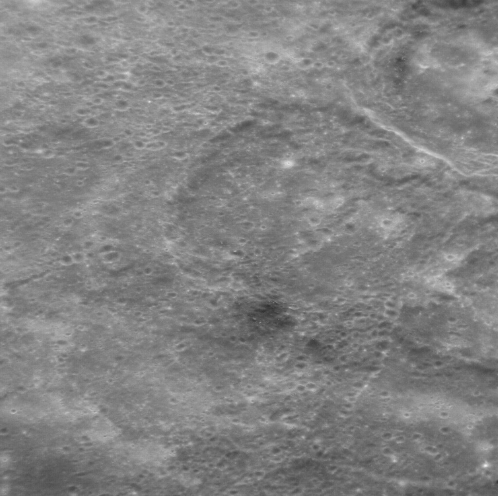 Oblique view of the dark spot southwest of Hauptmann crater on Mercury. Part of Hauptmann is in upper right. MESSENGER Narrow Angle Camera image. Approximate north is to upper left. Image width is approximately 180 km. Emission Angle: 48.7 Incidence Angle: 25.8 Latitude: -25.5 Longitude: 176.8 Phase Angle: 74.5